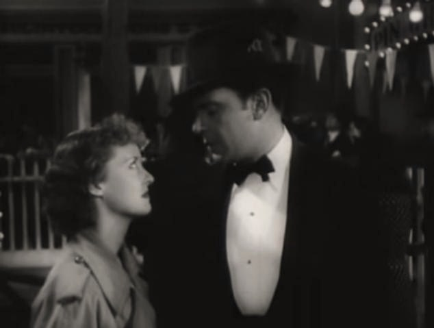 Bette Davis and George Brent in The Golden Arrow - trailer (cropped screenshot)